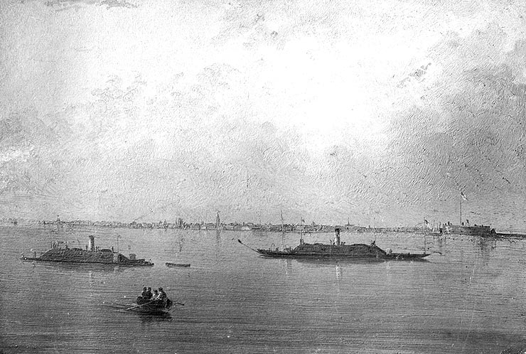 Photo #: NH 55237 Confederate ironclads Chicora and Palmetto State Nineteenth-Century photograph of a painting by Conrad Wise Chapman, depicting the ships in Charleston harbor, South Carolina, during the Civil War. Note the spar torpedo fitted to the ironclad in the right center. The original painting is in the Confederate Museum, Richmond, Virginia. U.S. Naval Historical Center Photograph.